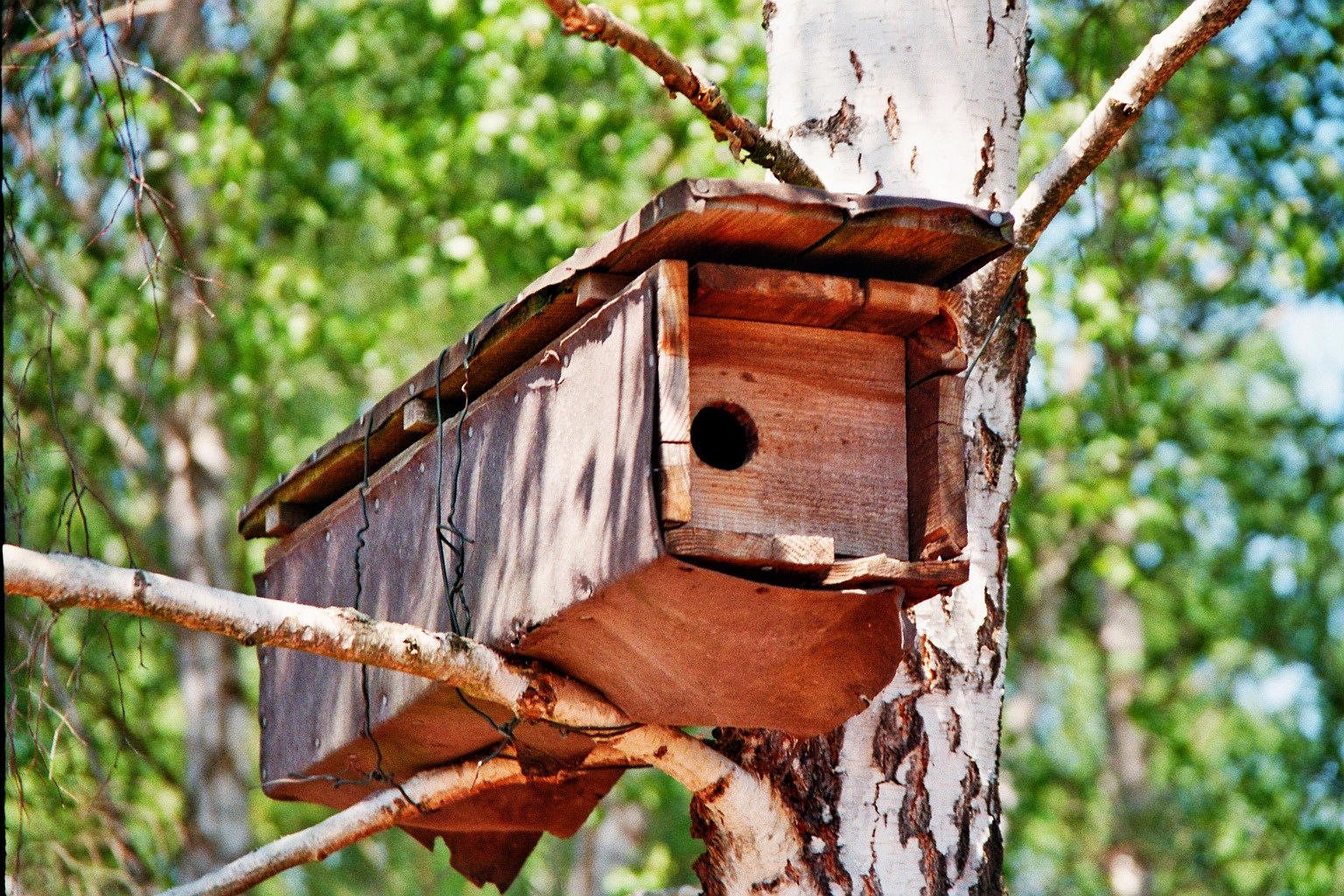 Nest box for the Hoopoe (Upupa epops) in the Reicherskreuzer Heide in Brandenburg, Germany.